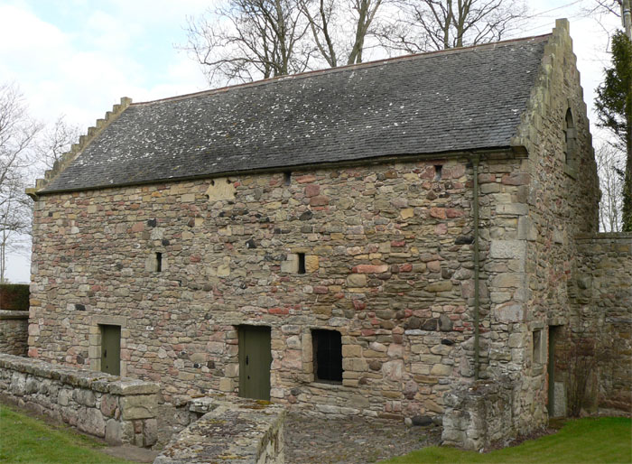 Foulden Tithe Barn, Foulden, Scotland